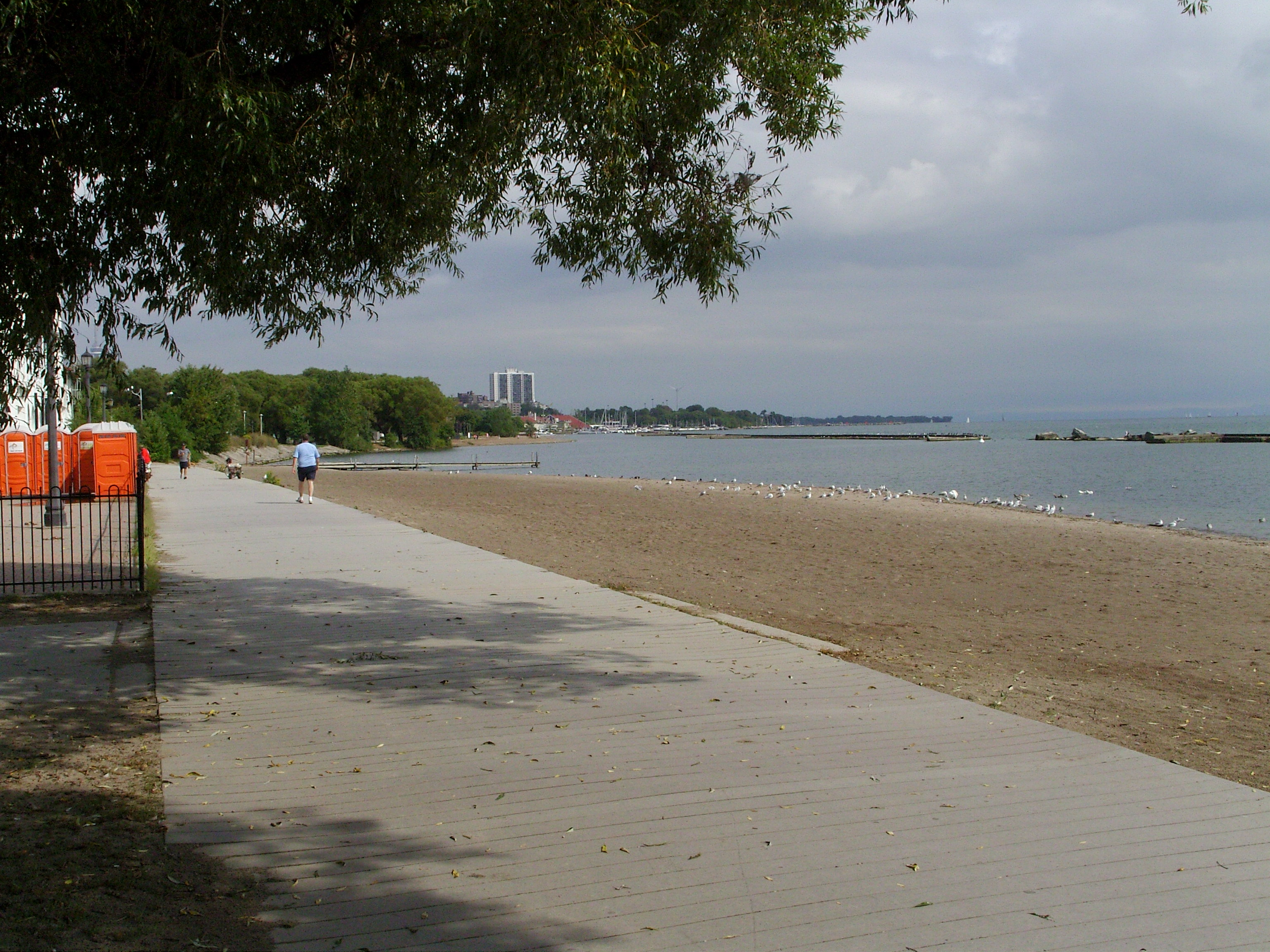 View of Sunnyside waterfront looking east from Sunnyside Pavilion.